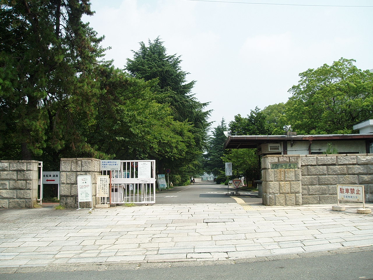 Main entrance to Kyoto University of Education, located in Fushimi-ku, Kyoto, Japan.